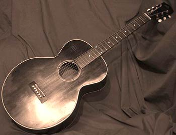 The Guitar